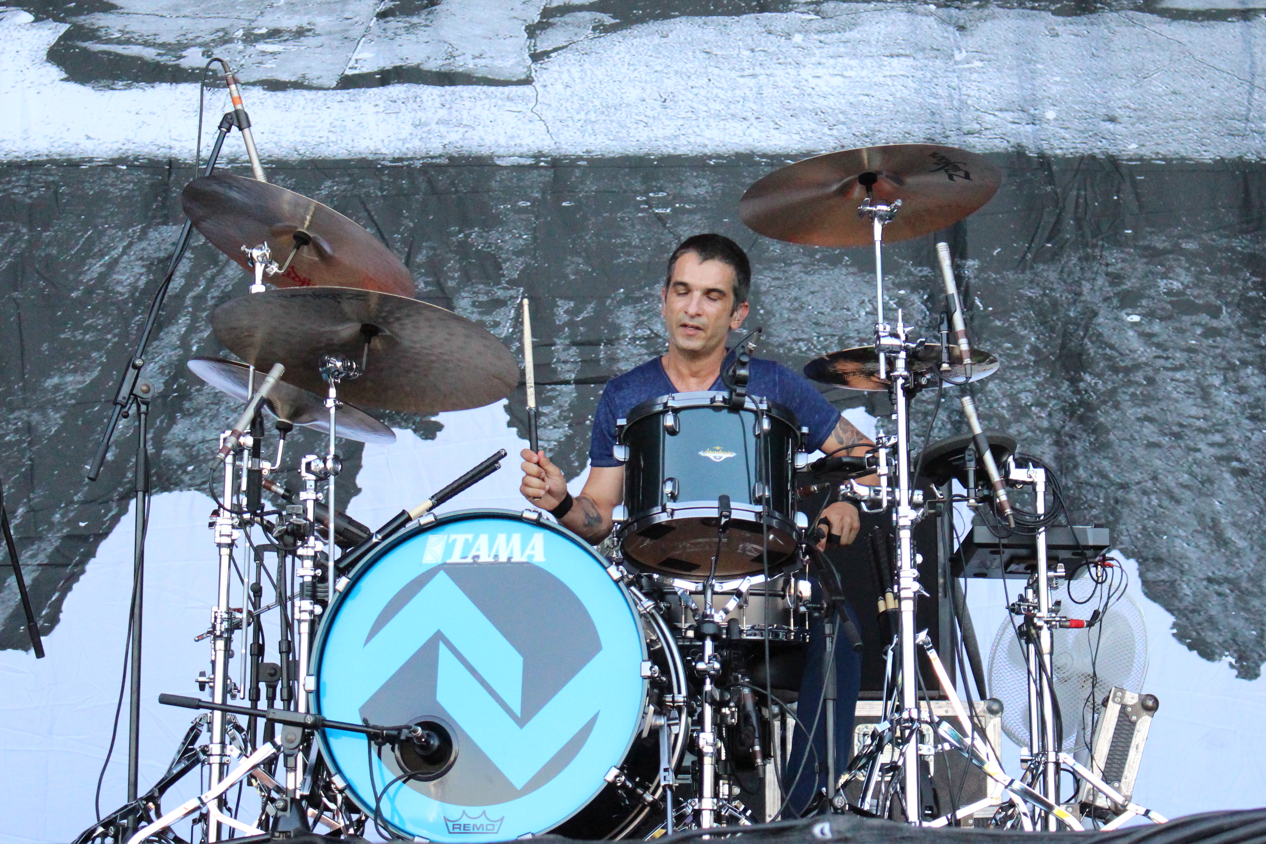 Festivalsommer This photo was created with the support of donations to Wikimedia Deutschland in the context of the CPB project "Festival Summer".